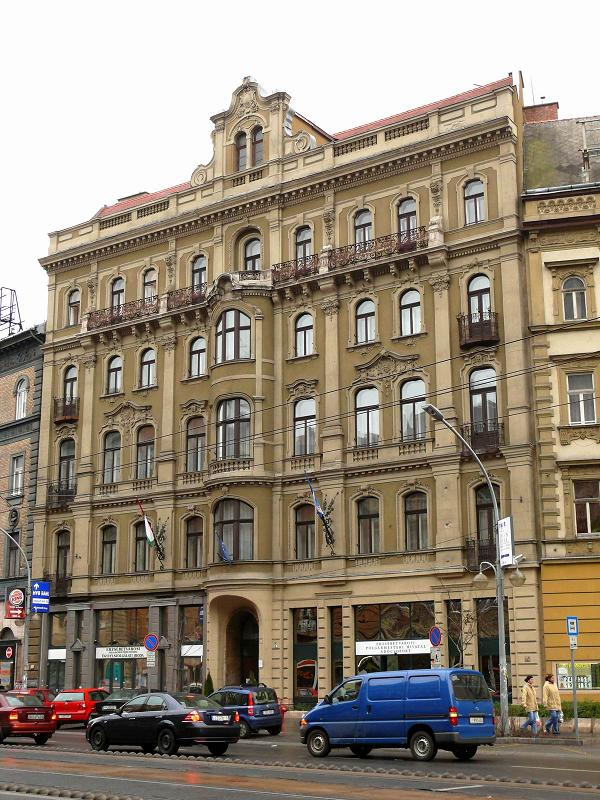 The Erzsébet Boulevard in Budapest